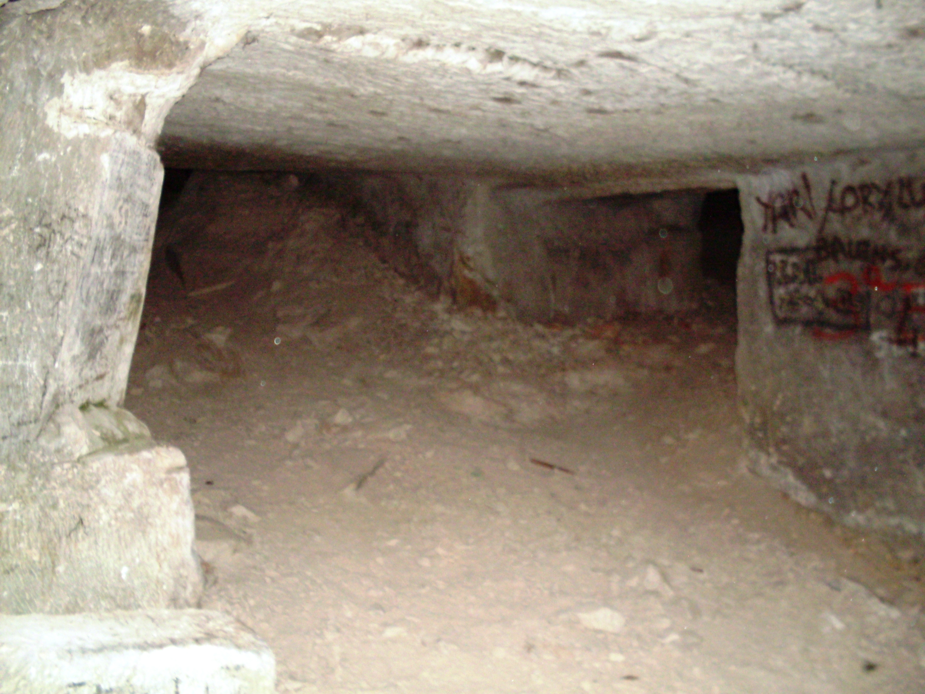 Italy Ancona Mount Conero - Roman caverns quarry inside